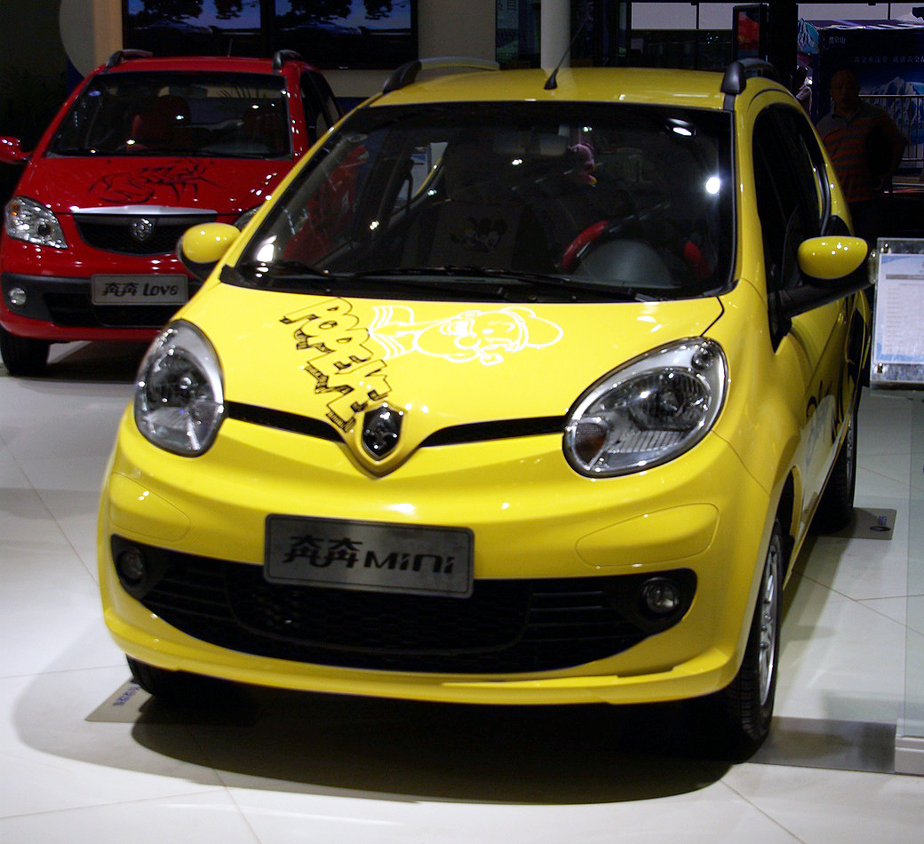 Chang'an BenBen Mini at the 2011 Shenzhen-Hong Kong-Macau International Auto Show. Behind can be seen a "BenBen Love".